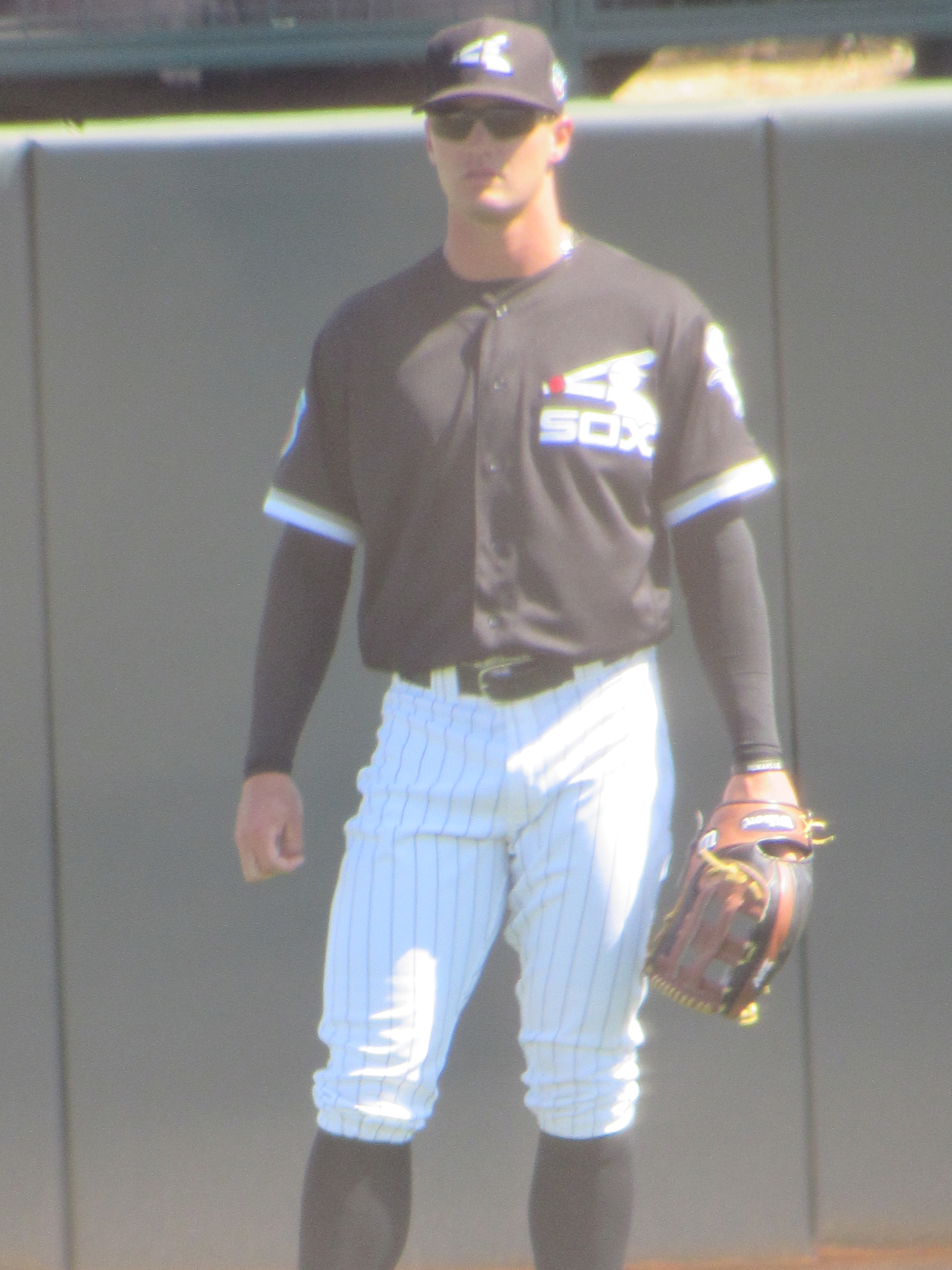 Engel Spring Training 2016